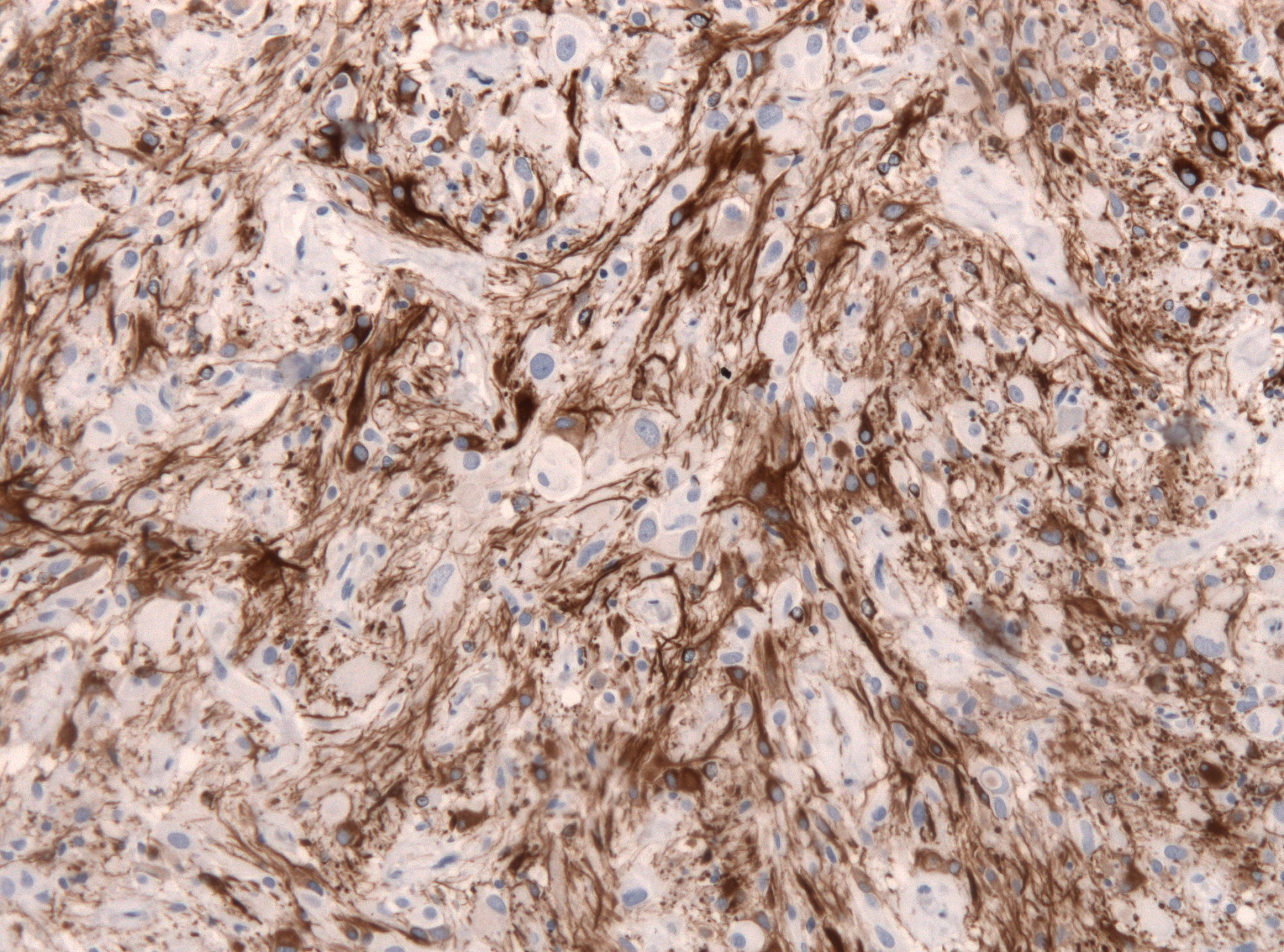 GFAP immunohistochemistry staining of an Supependymal Giant Cell Astrocytoma (GFAP)